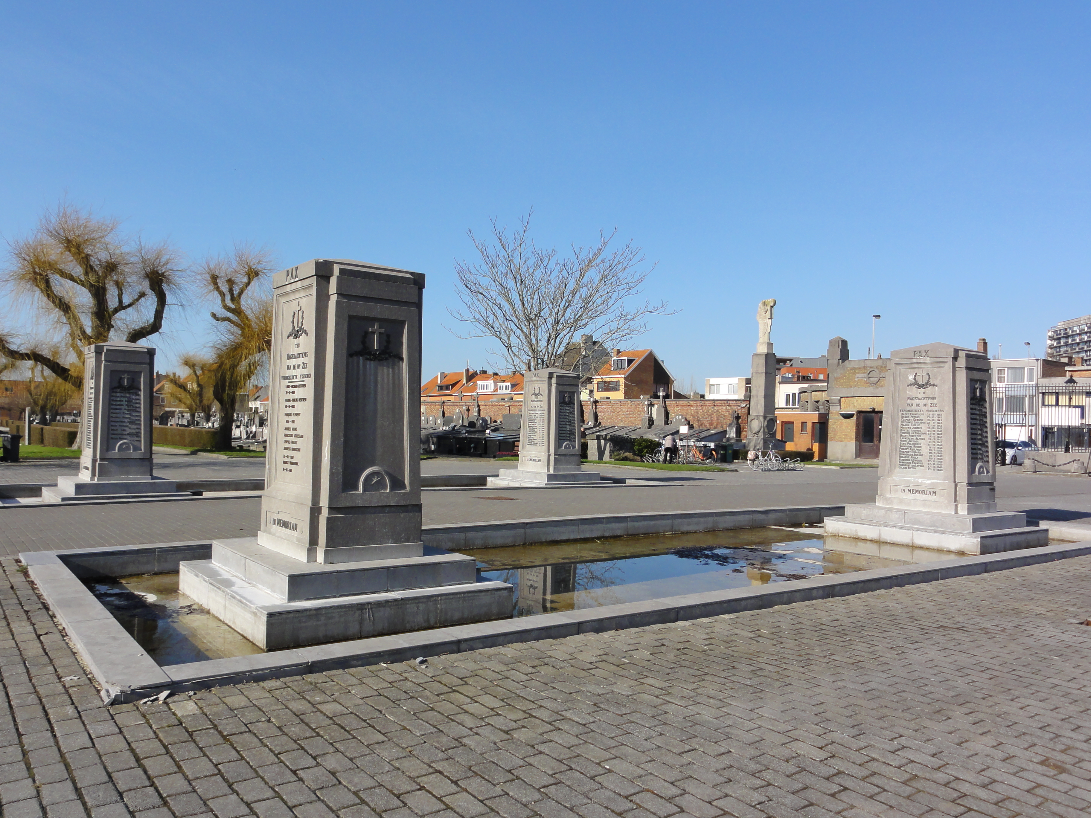 Fishermen's and Seamen's Memorial on the "Begraafplaats Stuiverstraat" cemetery in Oostende. Oostende, West Flanders, Belgium